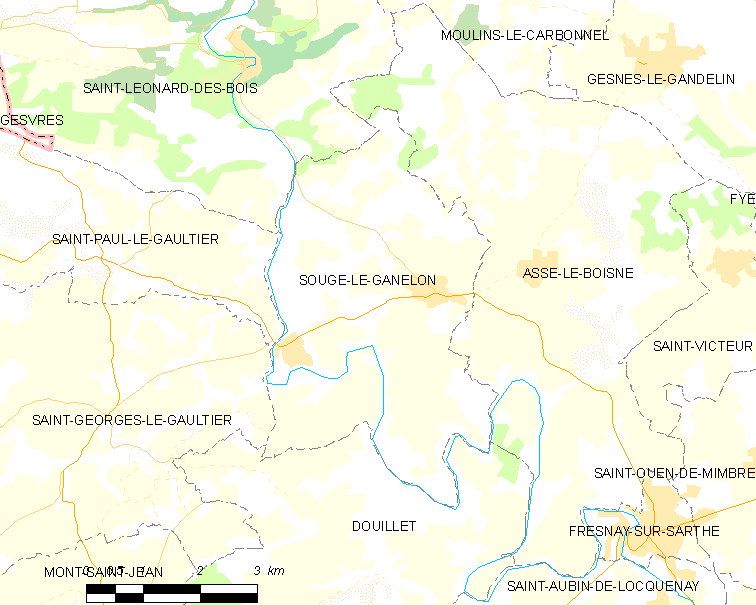 Map of French municipality